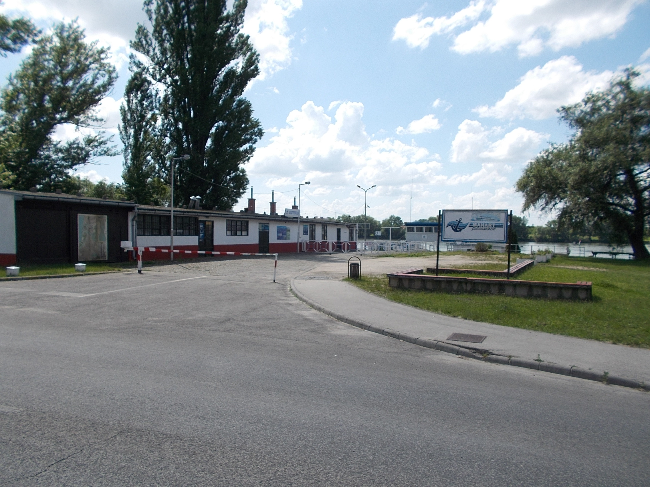 Mahart Passnave excursion ship station. - Nagy-Duna Promenade, Primate's Island, Esztergom, Komárom-Esztergom County, Hungary.